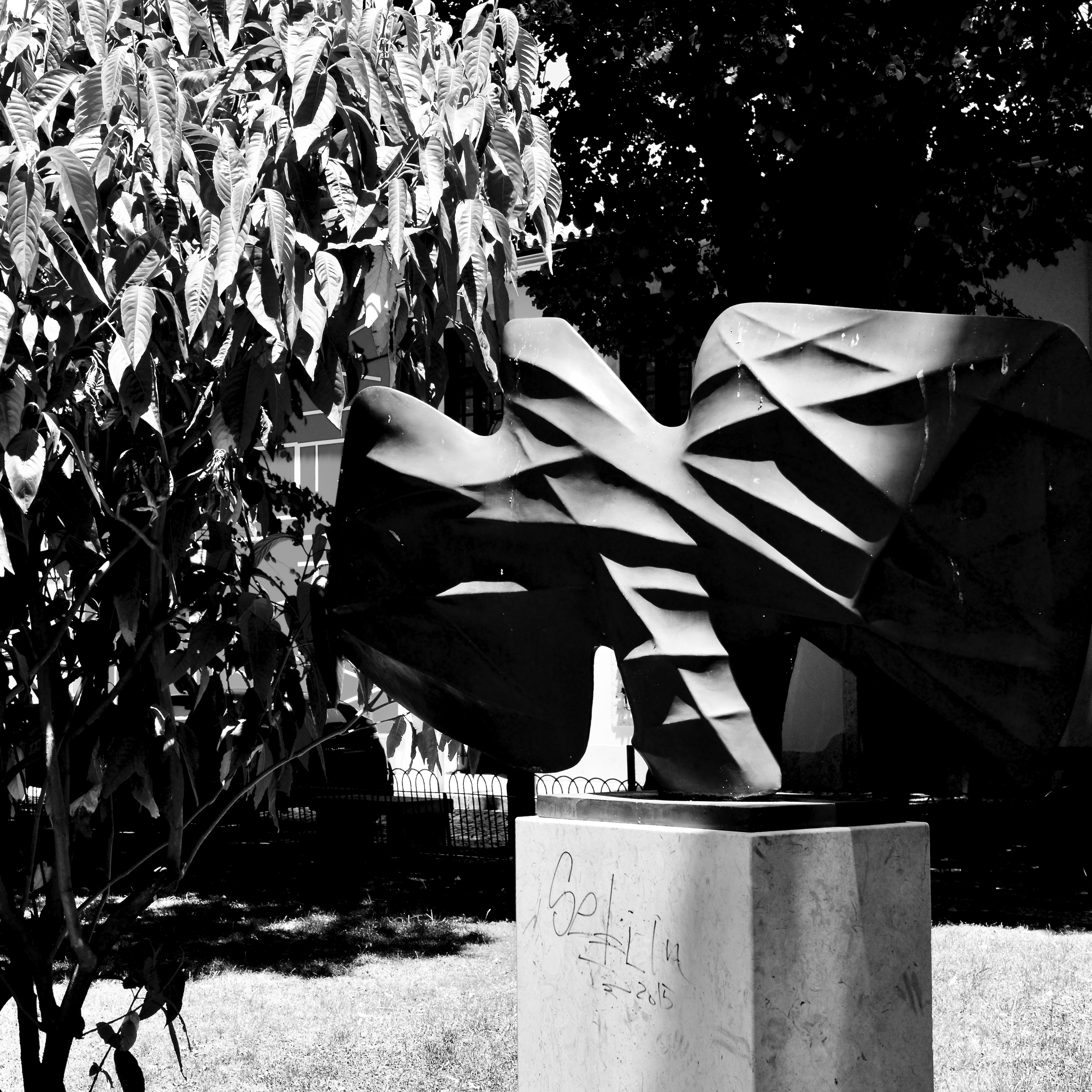 Ouranos II (1957) - Etienne Hadju (1907-1996). Amoreiras Garden, Lisbon, Portugal. Material: Bronze. Collection: Arpad Szenes - Vieira da Silva Foundation. Donated by Luce Hadju.